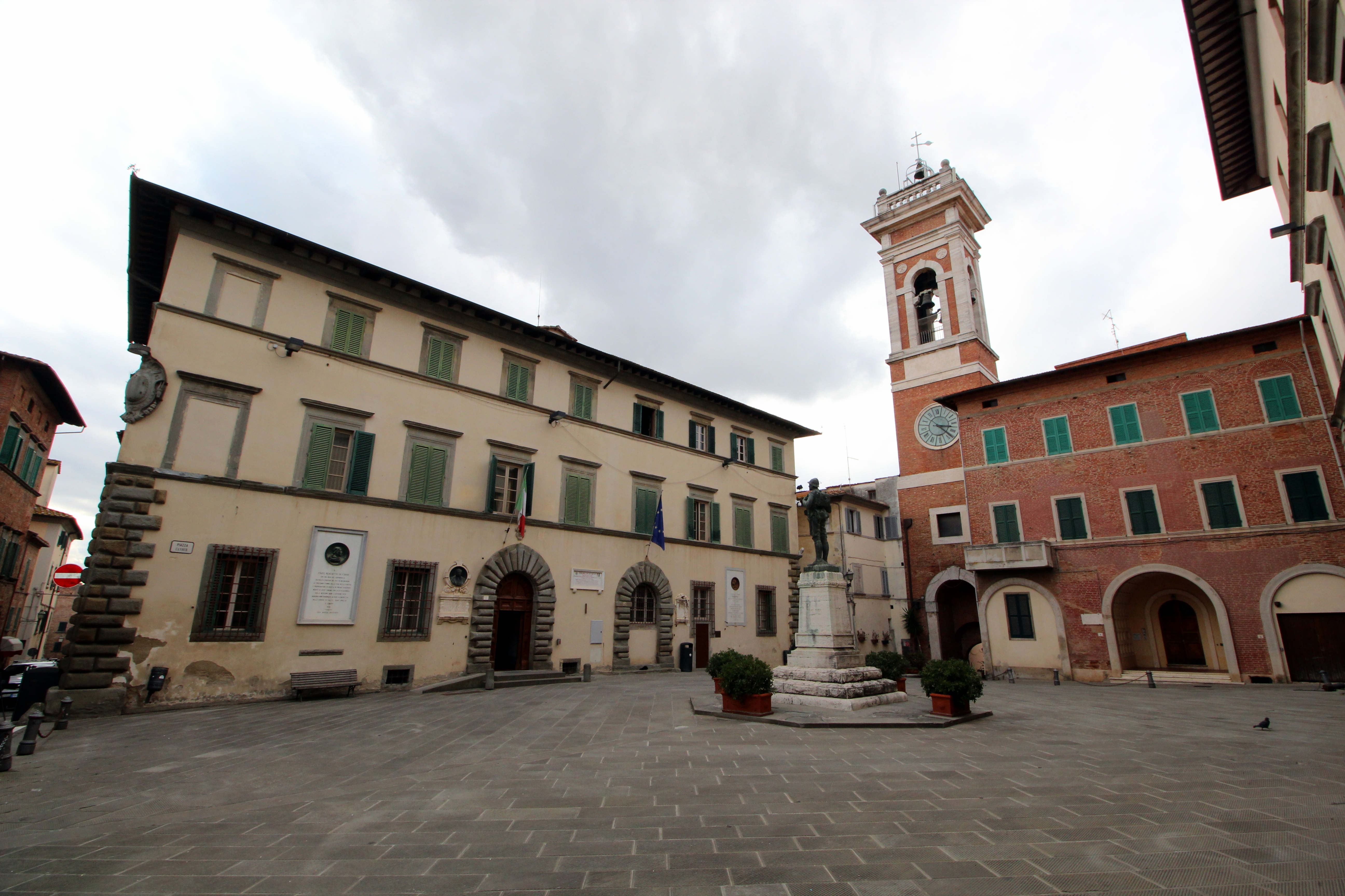 Torre Civica, Foiano della Chiana, Province of Arezzo, Tuscany, Italy. Left side: Town hall of Foiano